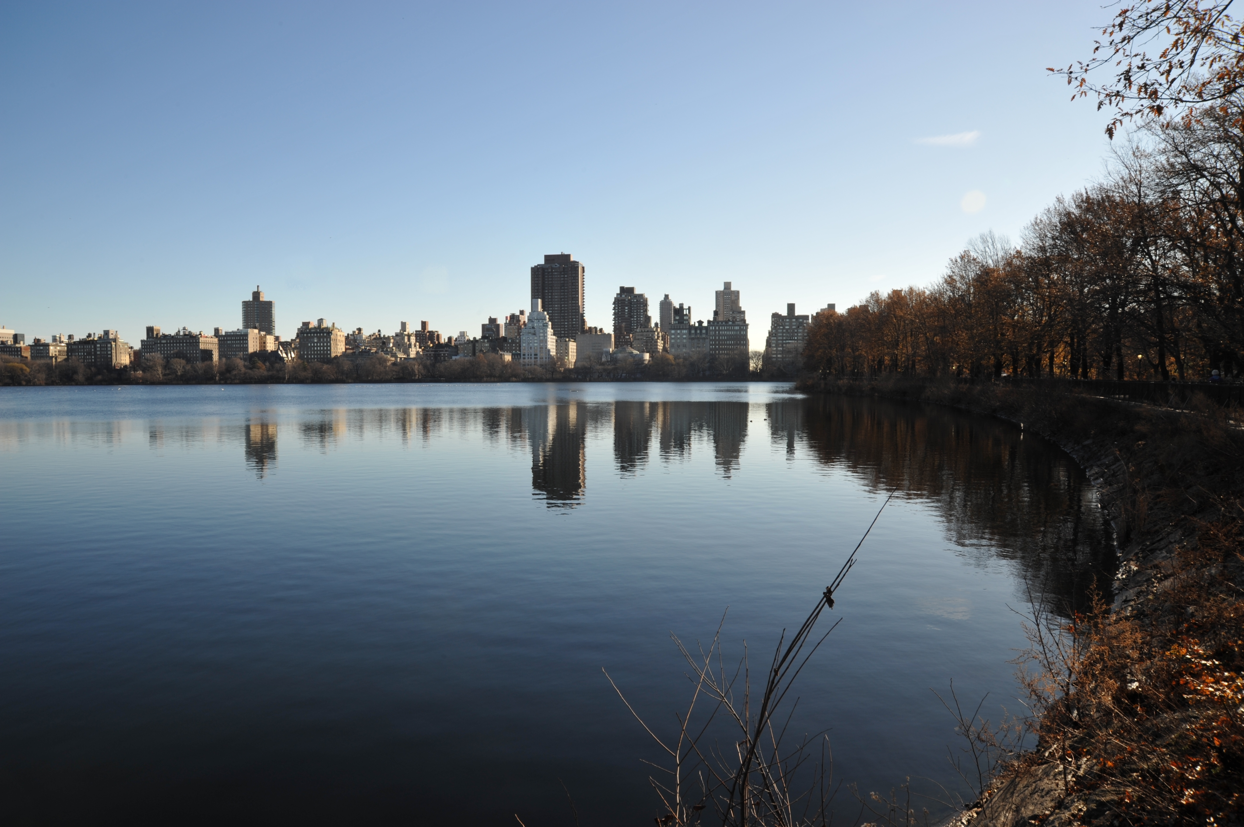 Reservoir-Central Park New York City